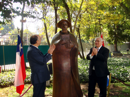 Opening of the Marko Marulić's monument in Santiago, Chile. monument is gift Croatian government's to the Chile. Author of the monument is Vasko Lipovac.